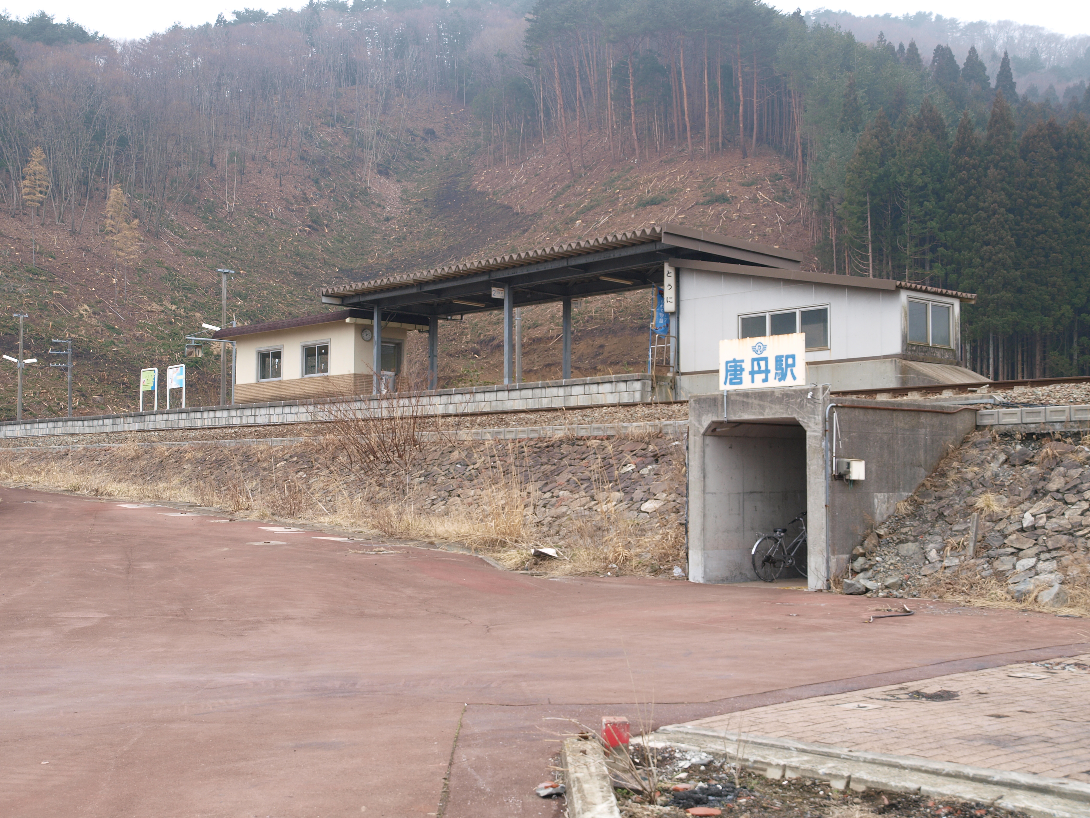 Tohni station 2012.3.18